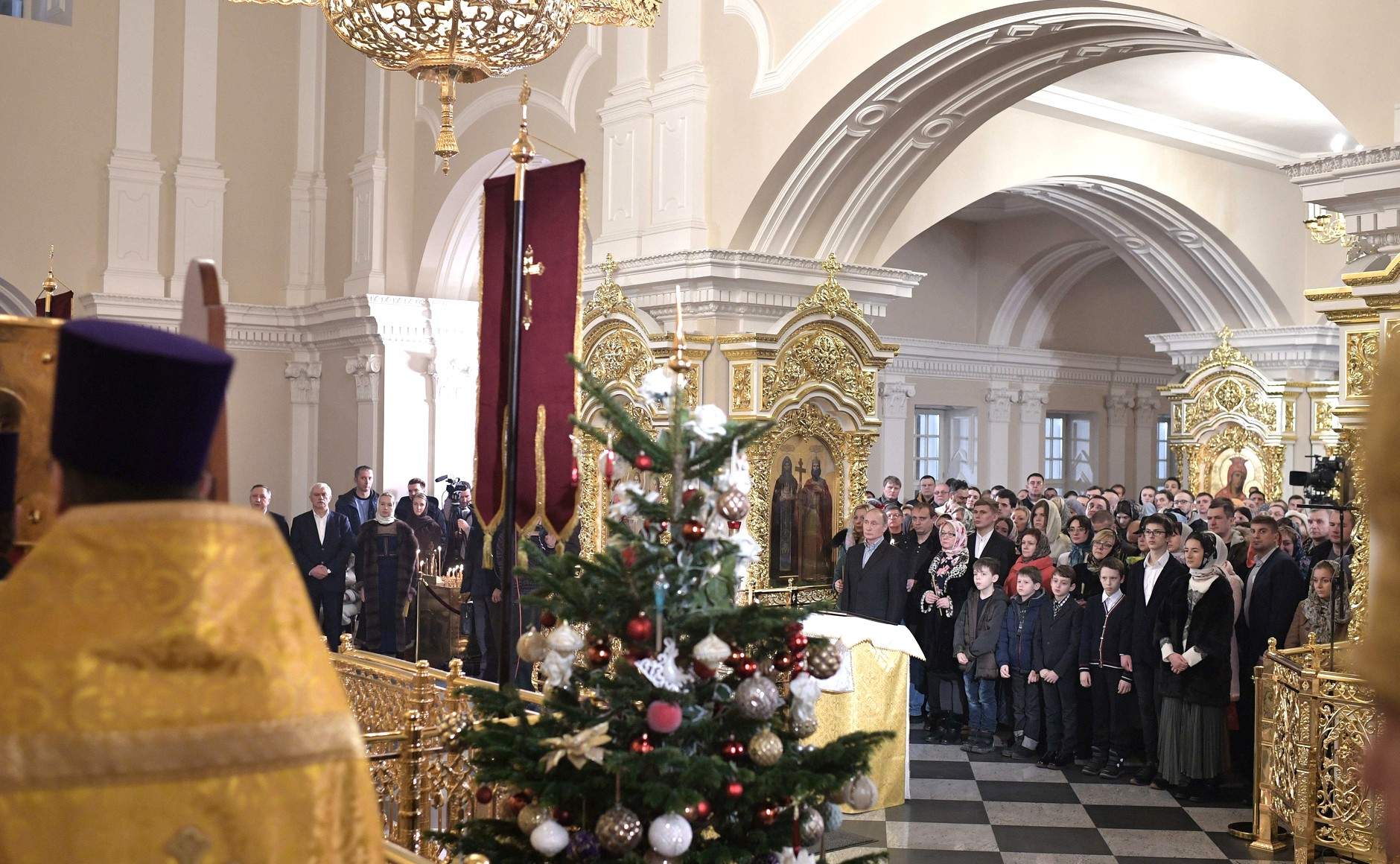 Vladimir Putin at Christmas service at the Church of Simeon and Anna (St. Petersburg; 2018-01-07)